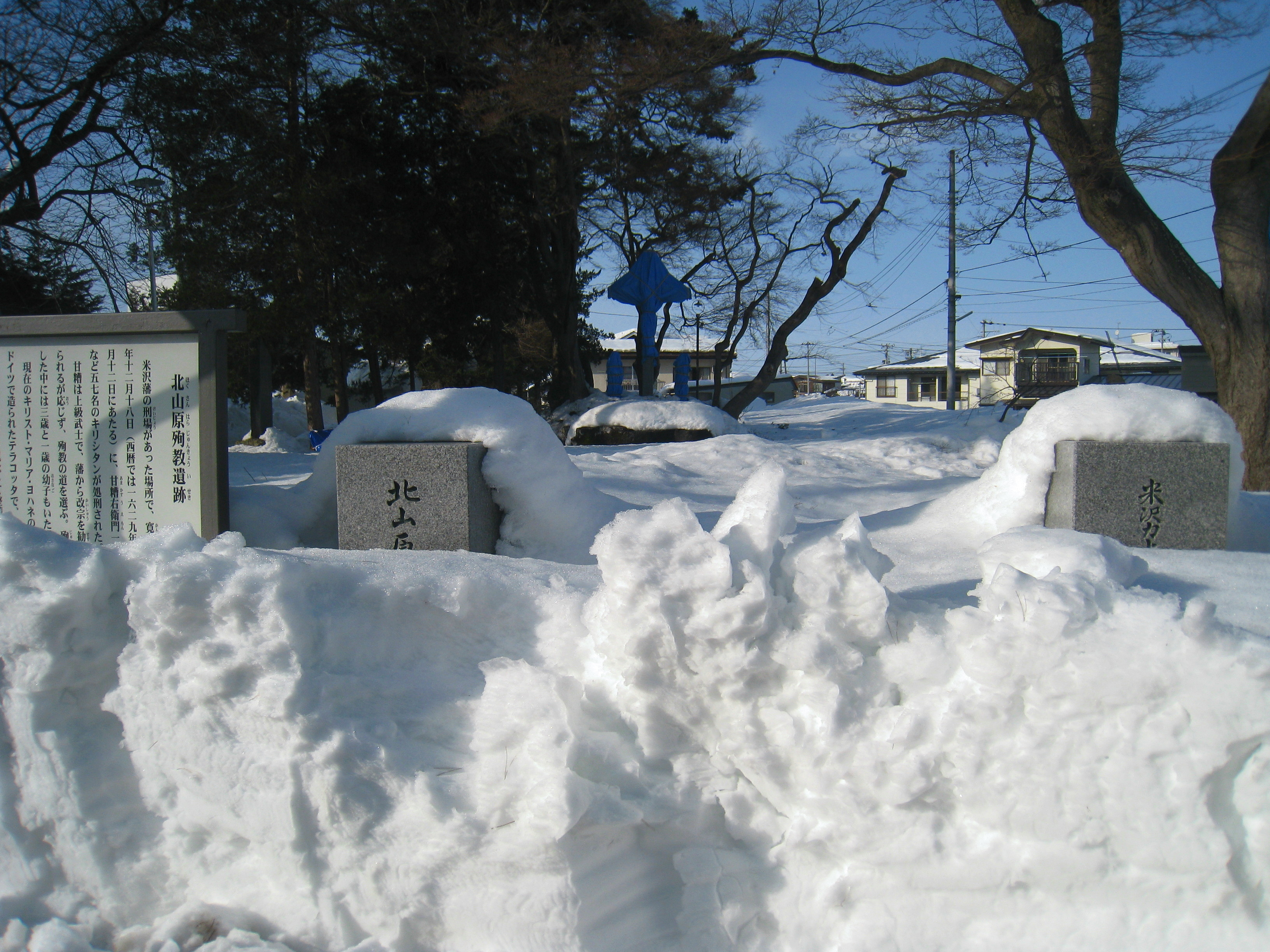 Hokusanbara Martyr Memorial (Hokusanbara junkyo iseki) in Yonezawa City, Yamagata Prefecture, Japan